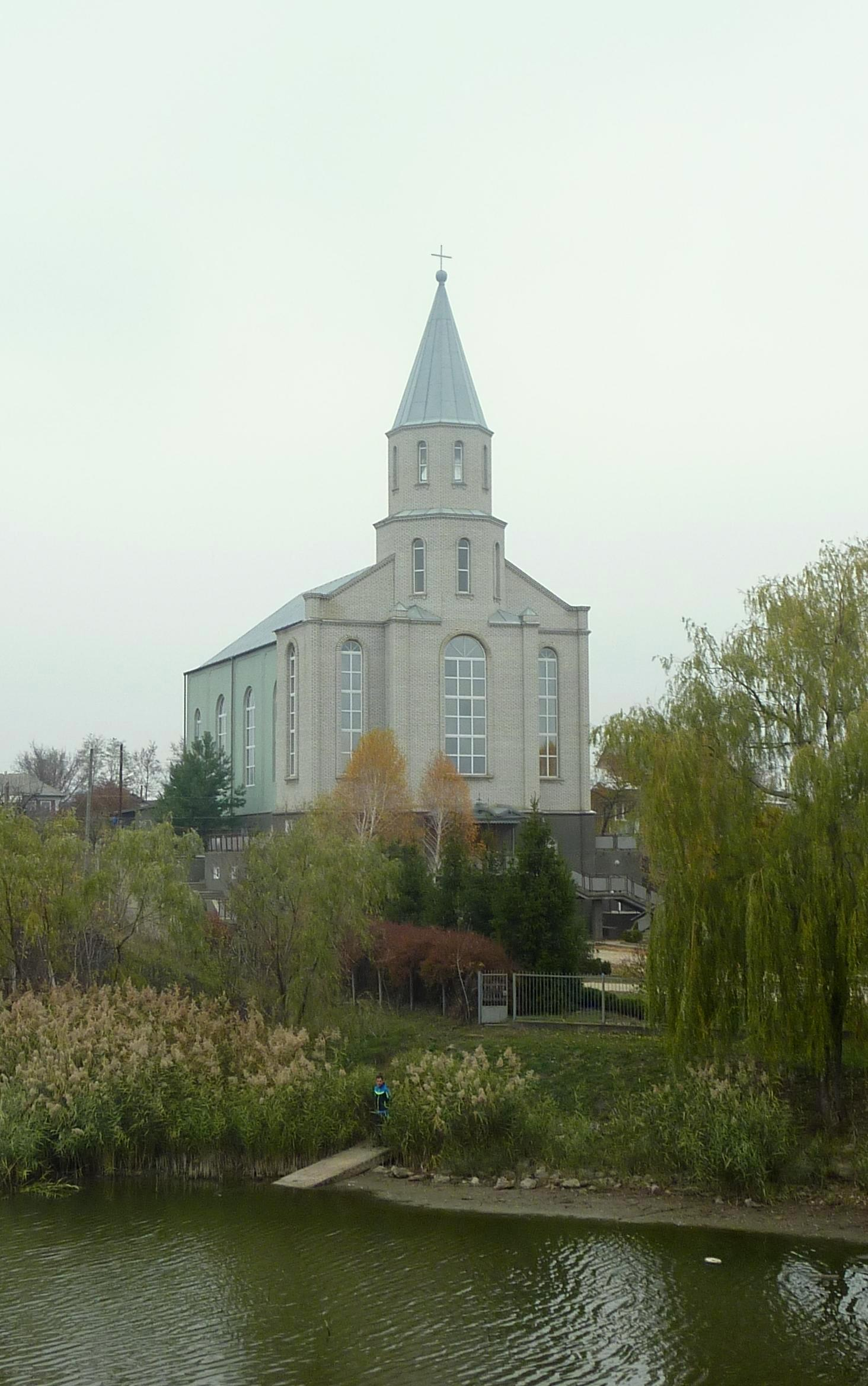 Pentecostal Church in Brătuşenii Noi, Moldova